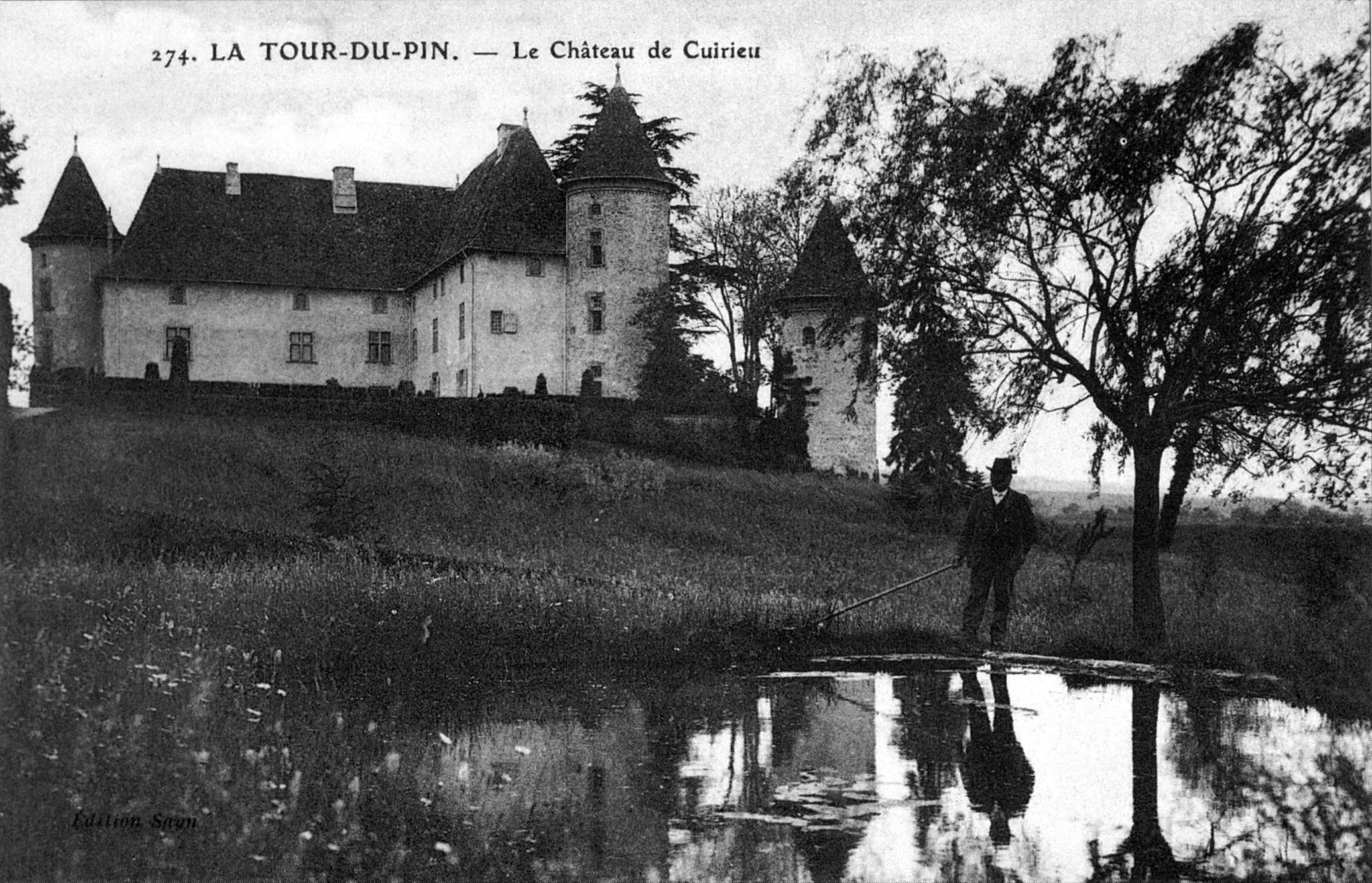 Castle of Cuirieu